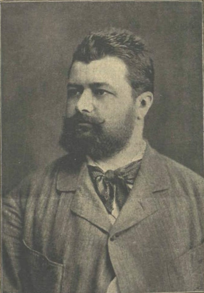 Sándor Erkel